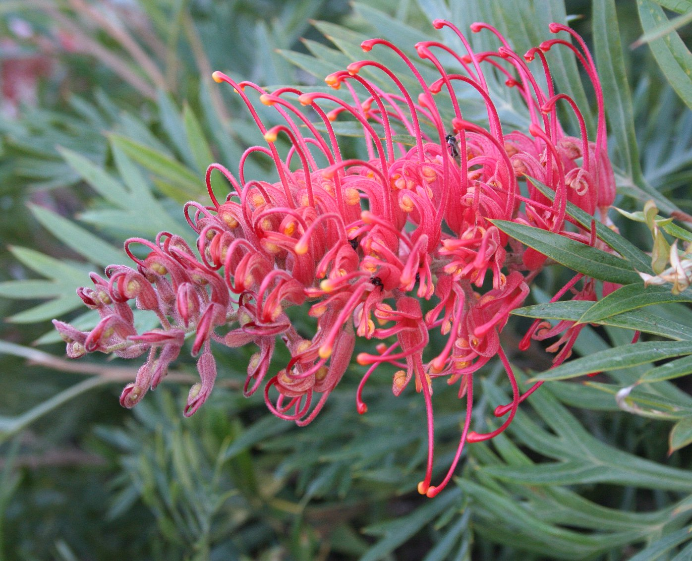 Grevillea Molly, Garden of Peter Olde, Oakdale, NSW